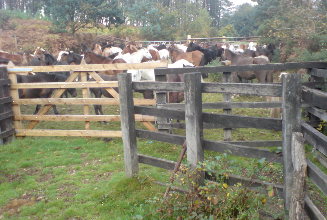 Ponies gathered in a pound (corrall) at a New Forest drift (round-up)